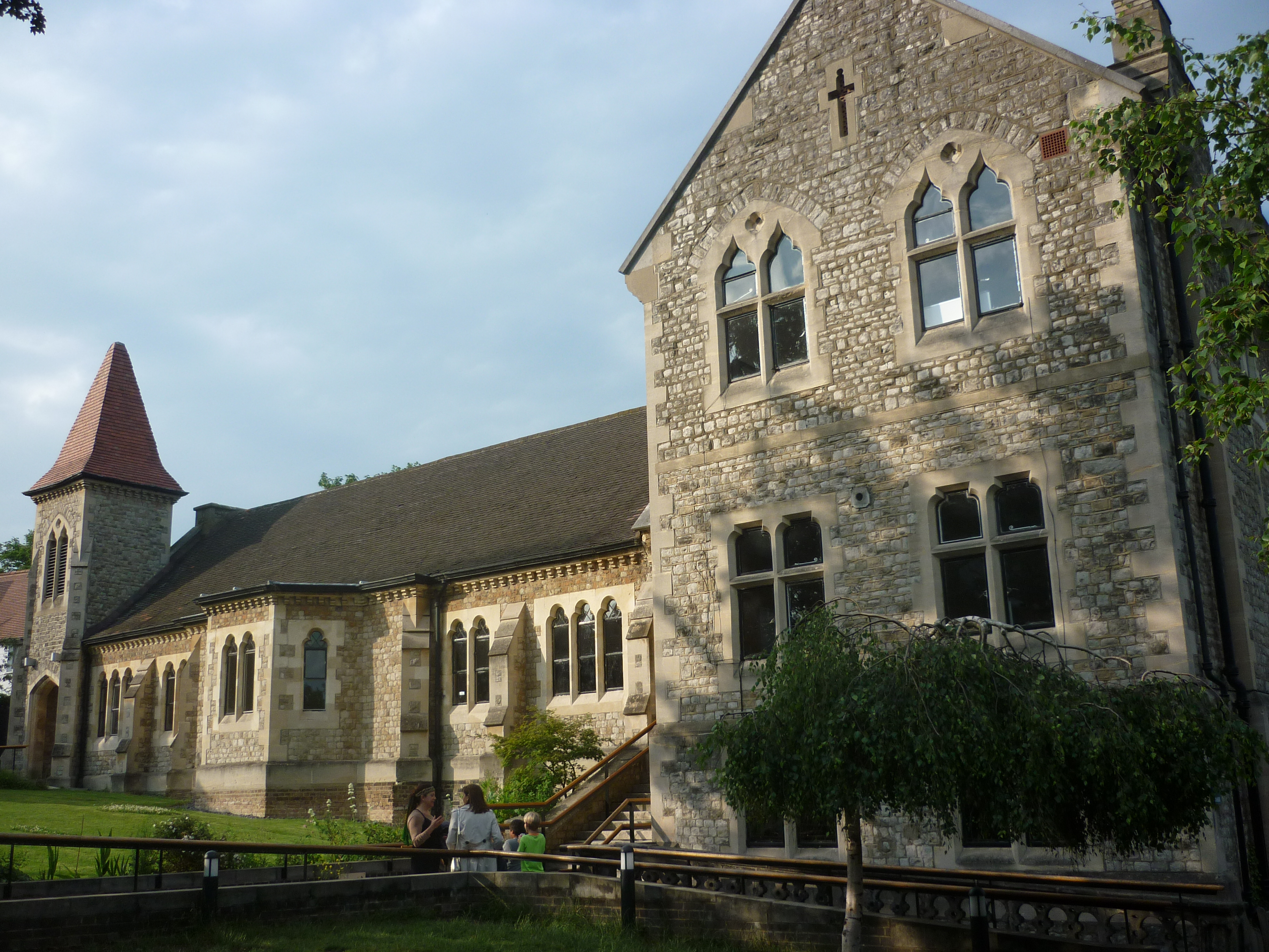 An external view of the old school buildings of Fitzjohn's Primary School Hampstead London England